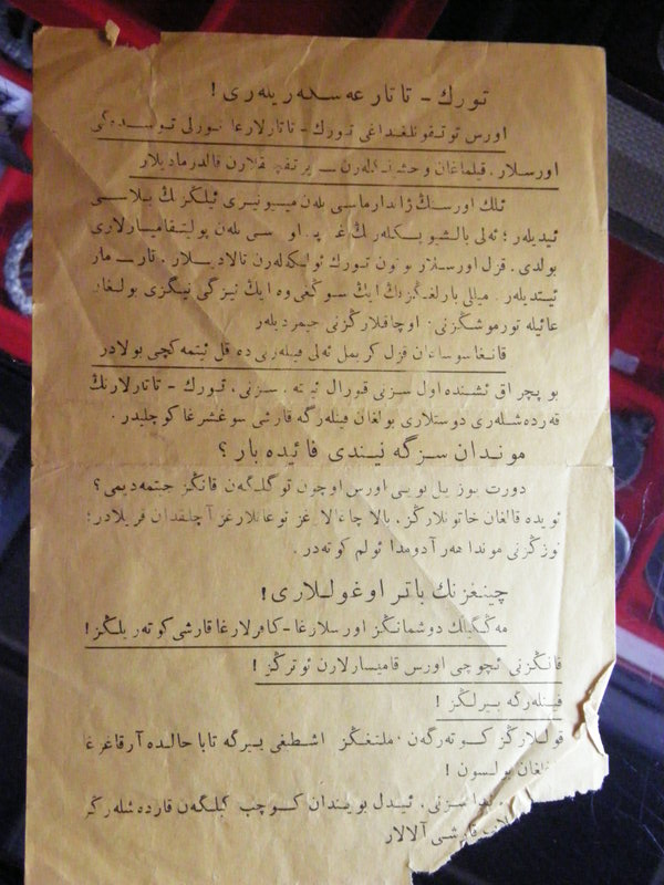 Propaganda leaflet (Fly sheet) by Finns, in Tartar arabic script